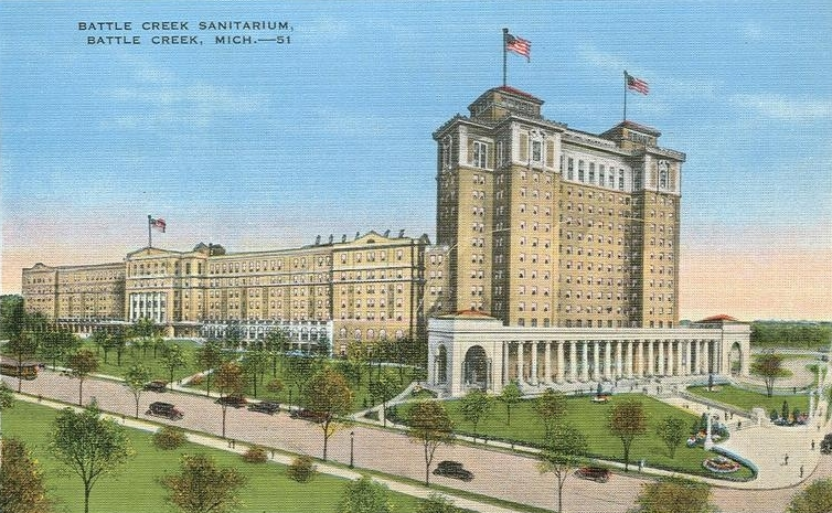 Battle Creek Sanitarium with the tower addition, a color postcard, circa 1930, The Willard Library collection